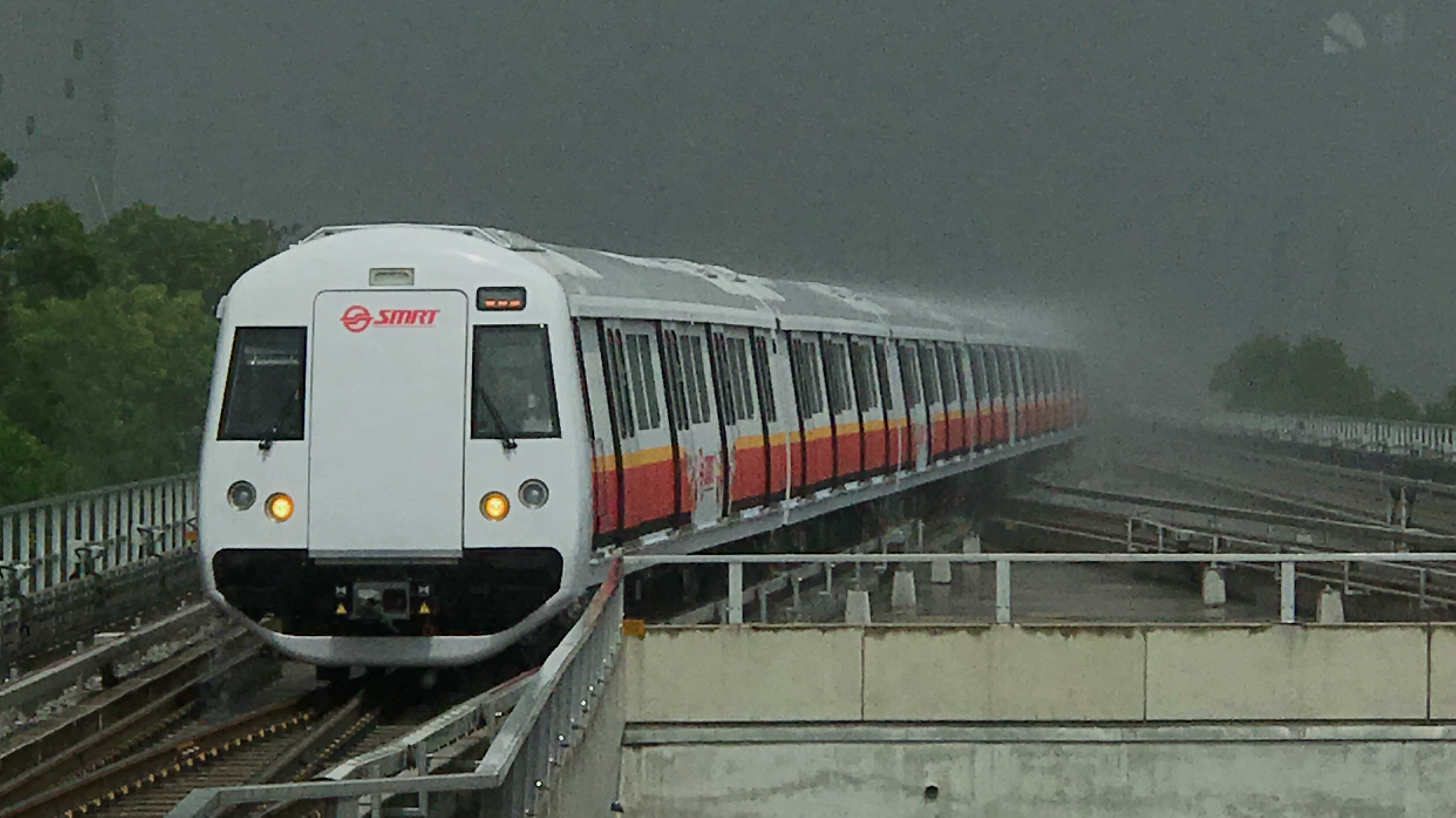 EWL (SMRT): C151B arriving at Tuas Link MRT Station on a rainy day during the TWE Open House. Train Info: (623/624 - Kawasaki Heavy Industries & CSR Qingdao Sifang C151B (KSF)). 中文（新加坡）: EWL（SMRT）：C151B在TWE开放日期间下雨天抵达Tuas Link地铁站。 火车信息：（623/624 - 川崎重工业企业青岛四方C151B（KSF））。